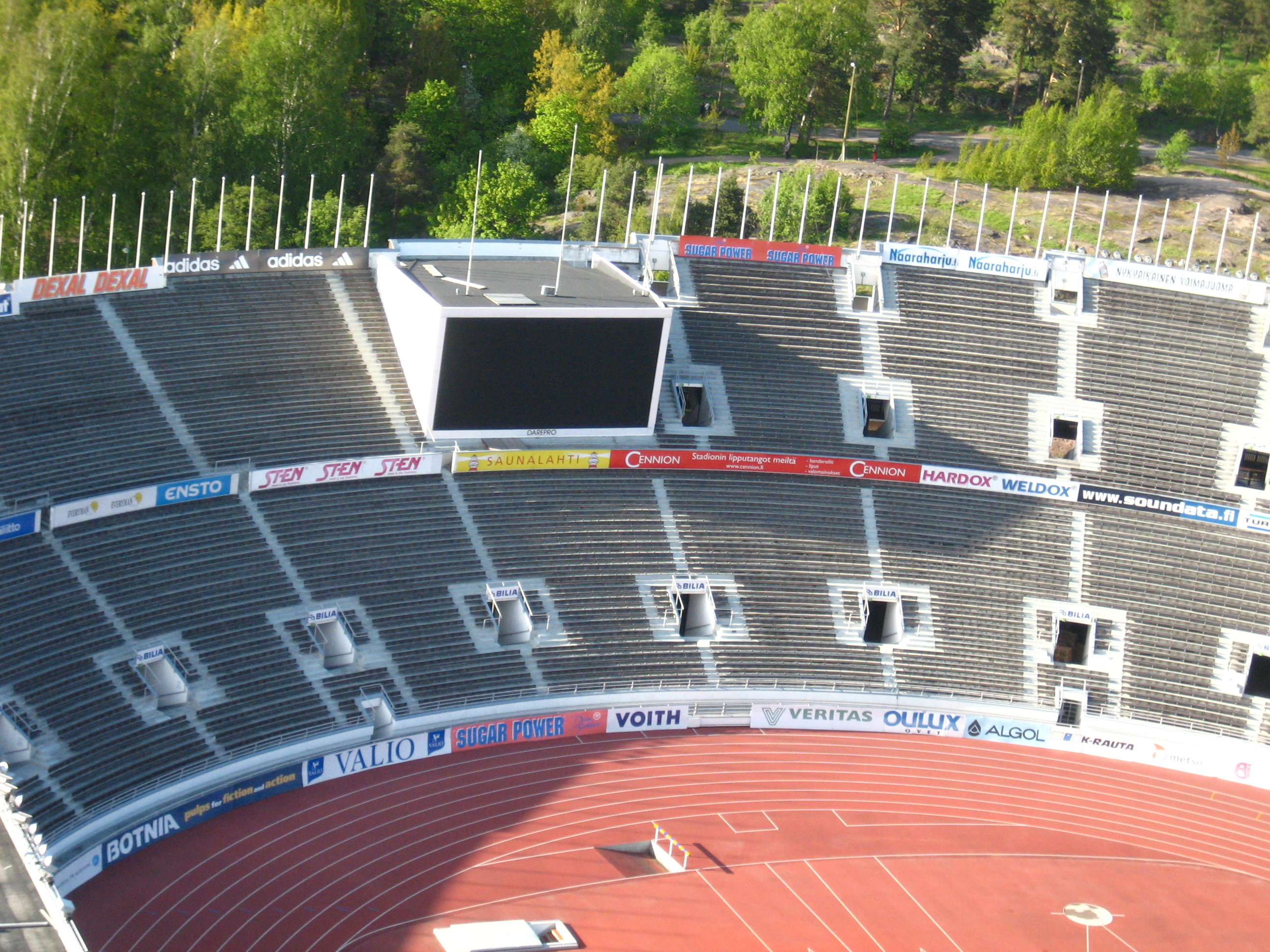 Helsinki Olympic Stadium